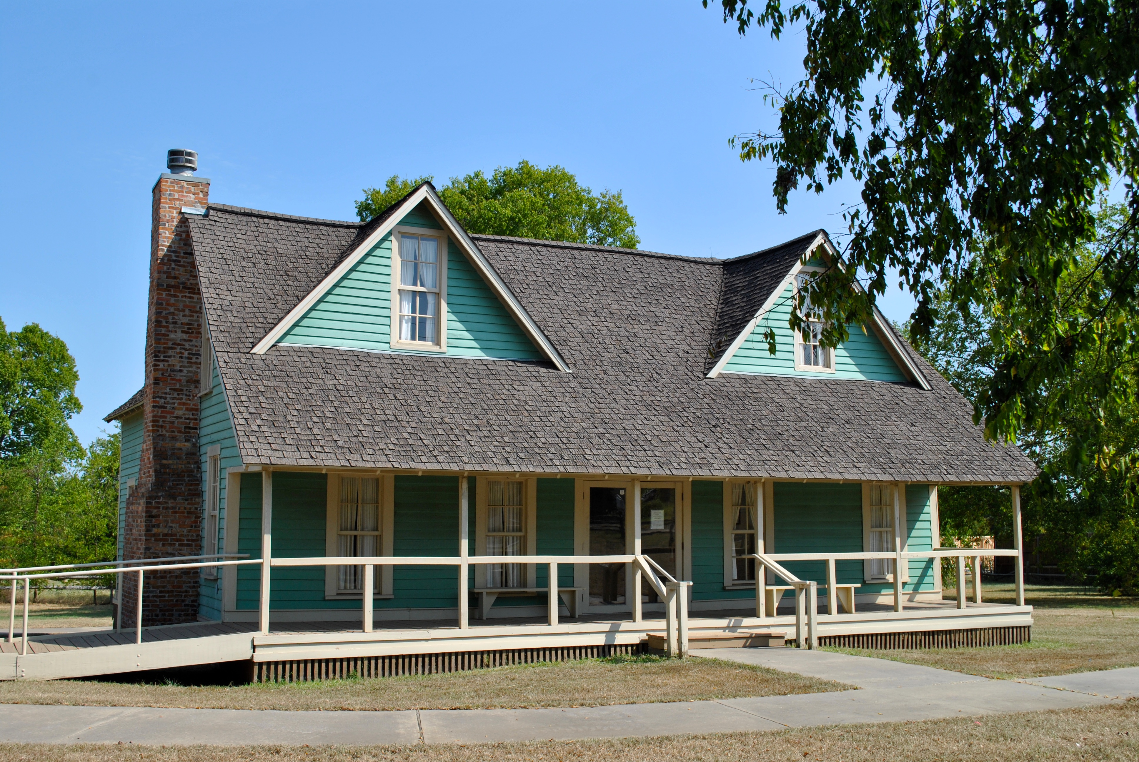 Mount Vernon, Texas, Sept. 7, 2015